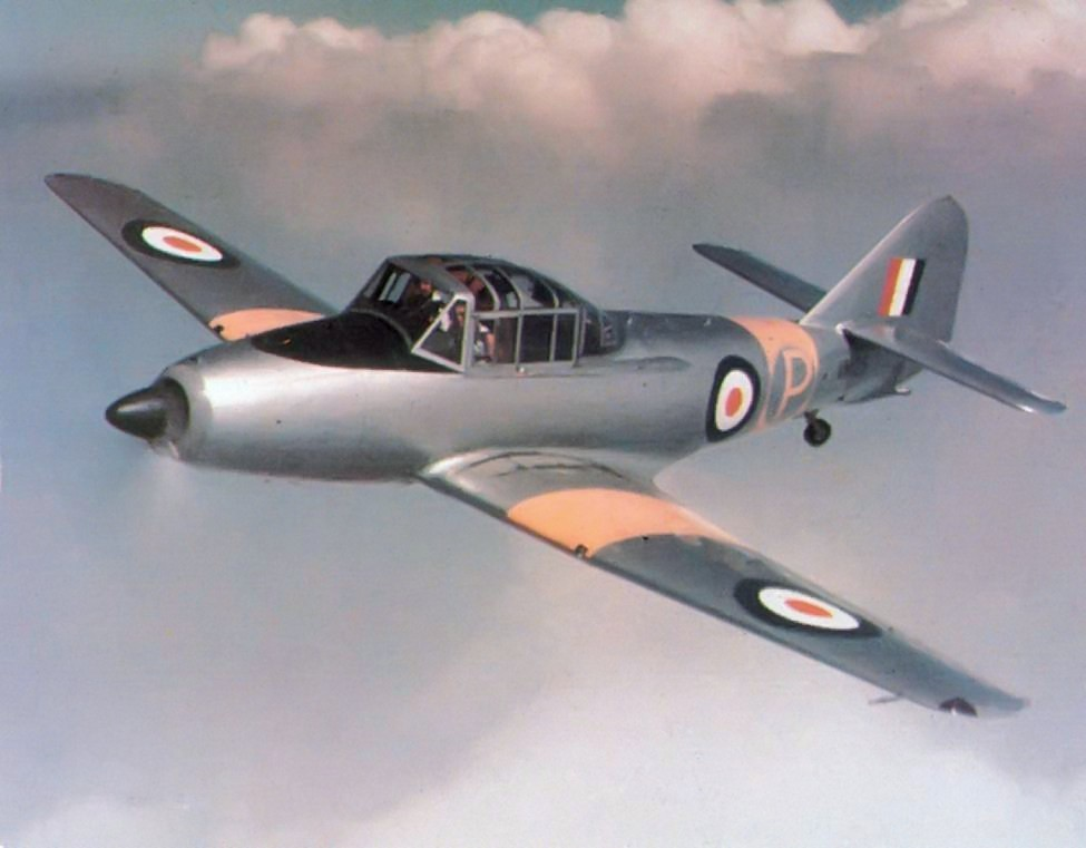 Avro Athena prototype with turboprop engine. Production aircraft were powered by the Merlin piston engine